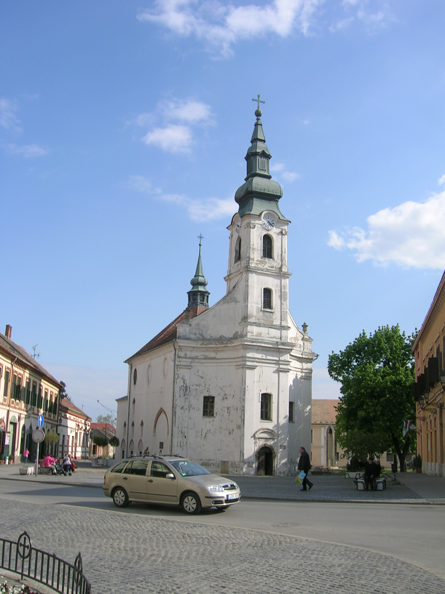 one of the Roman Catholic churhces of Szigetvár, this one stands on the Zrínyi Sqr., originally built as a mosque, later transformed to church in Baroque style. This is a photo of a monument in Hungary, Identifier: 1984